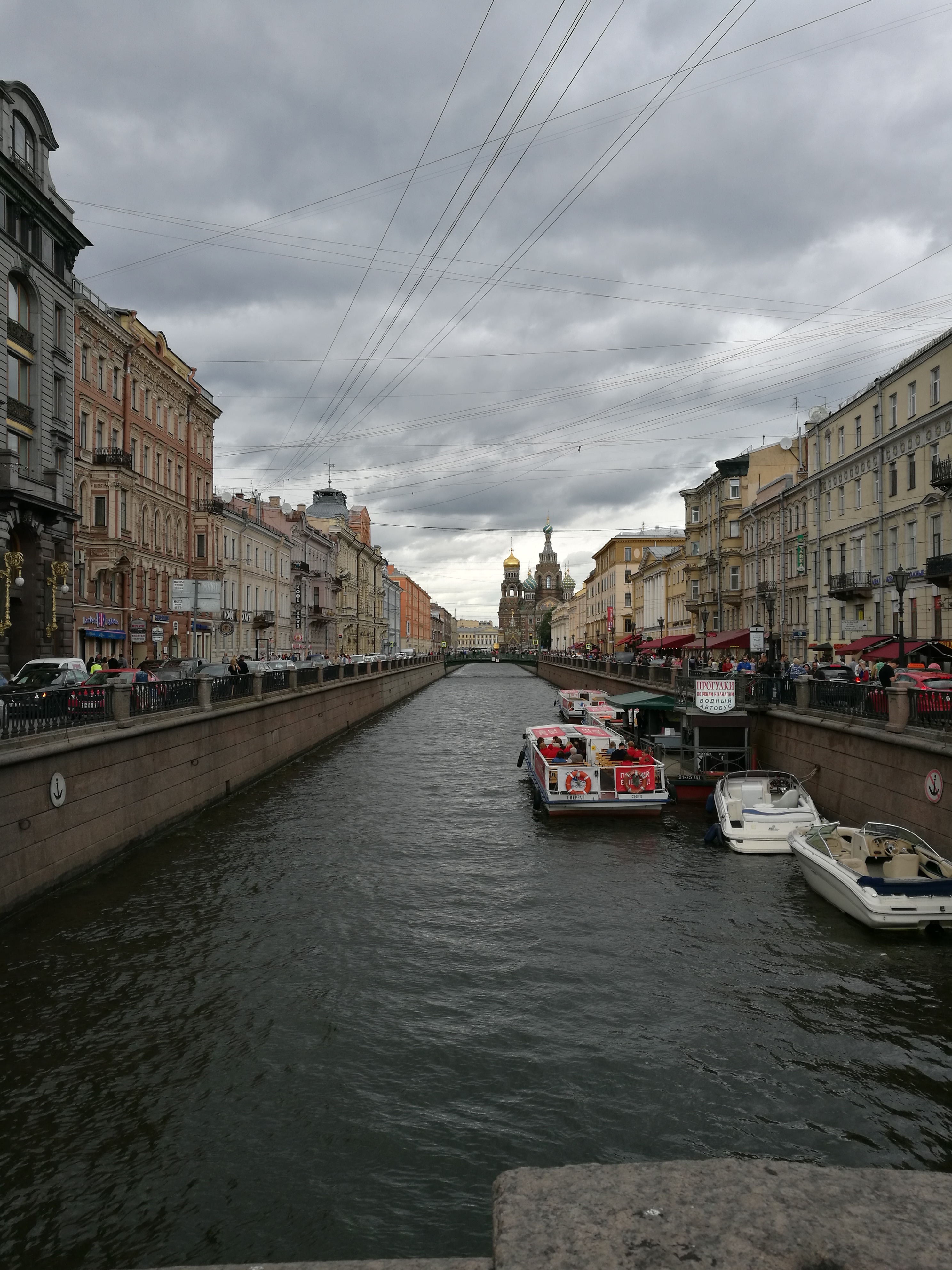 Beautiful view from St.Petersburg.